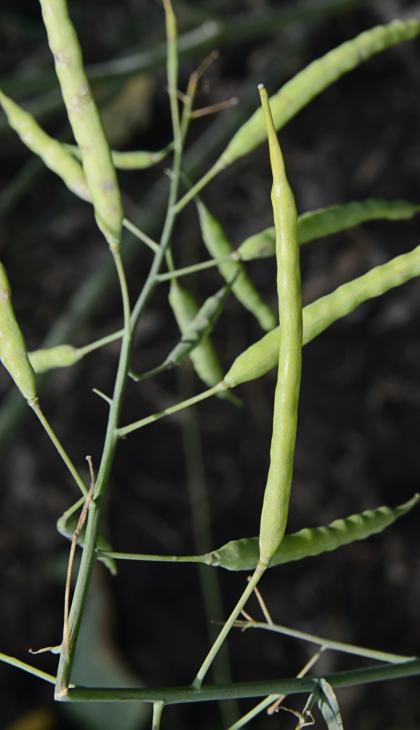 Brassica napus, silique